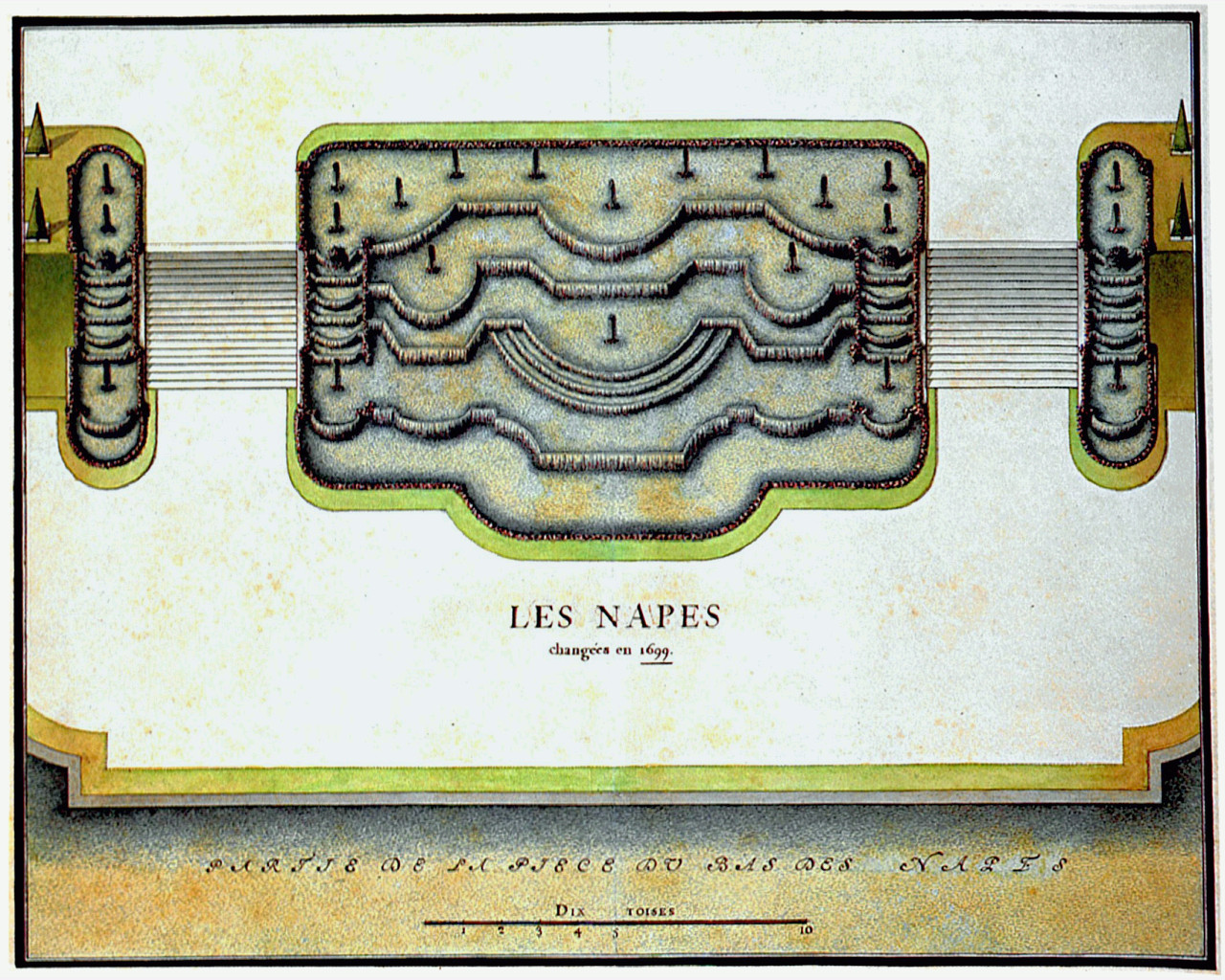 Nappe d’eau in the garden of the Château de Marly (coloured etching/engraving)